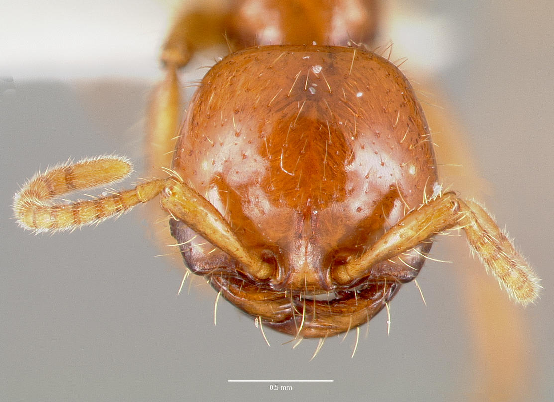 Head view of ant Cheliomyrmex morosus specimen casent0003202.